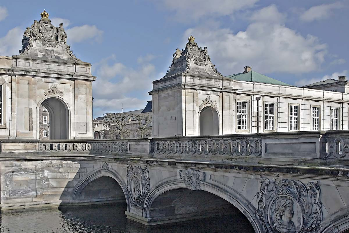 Marmorbroen (The Marble Bridge) in Copenhagen, built 1739-1745. Originally, this was the main entrance to Christiansborg Castle.